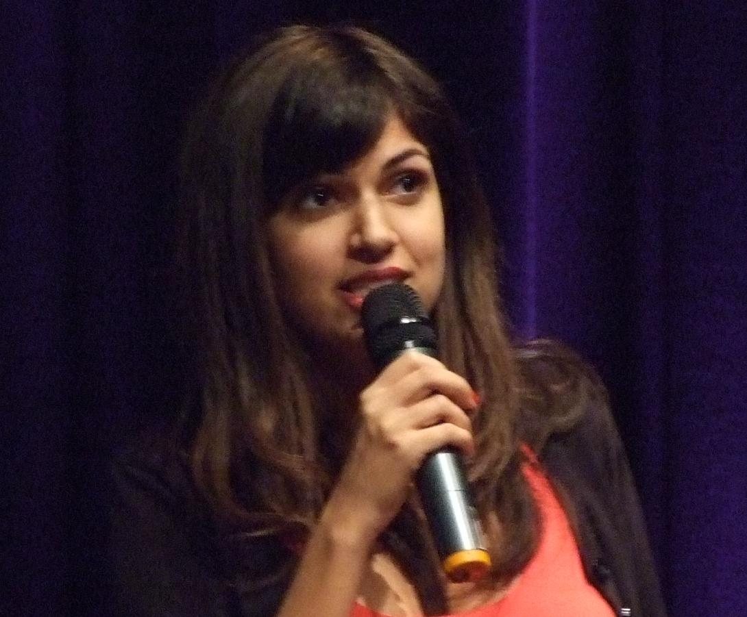 Ariane Sherine speaking at TAM London October 2009